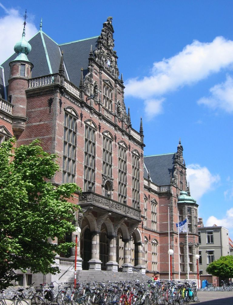 University of Groningen (Main building)